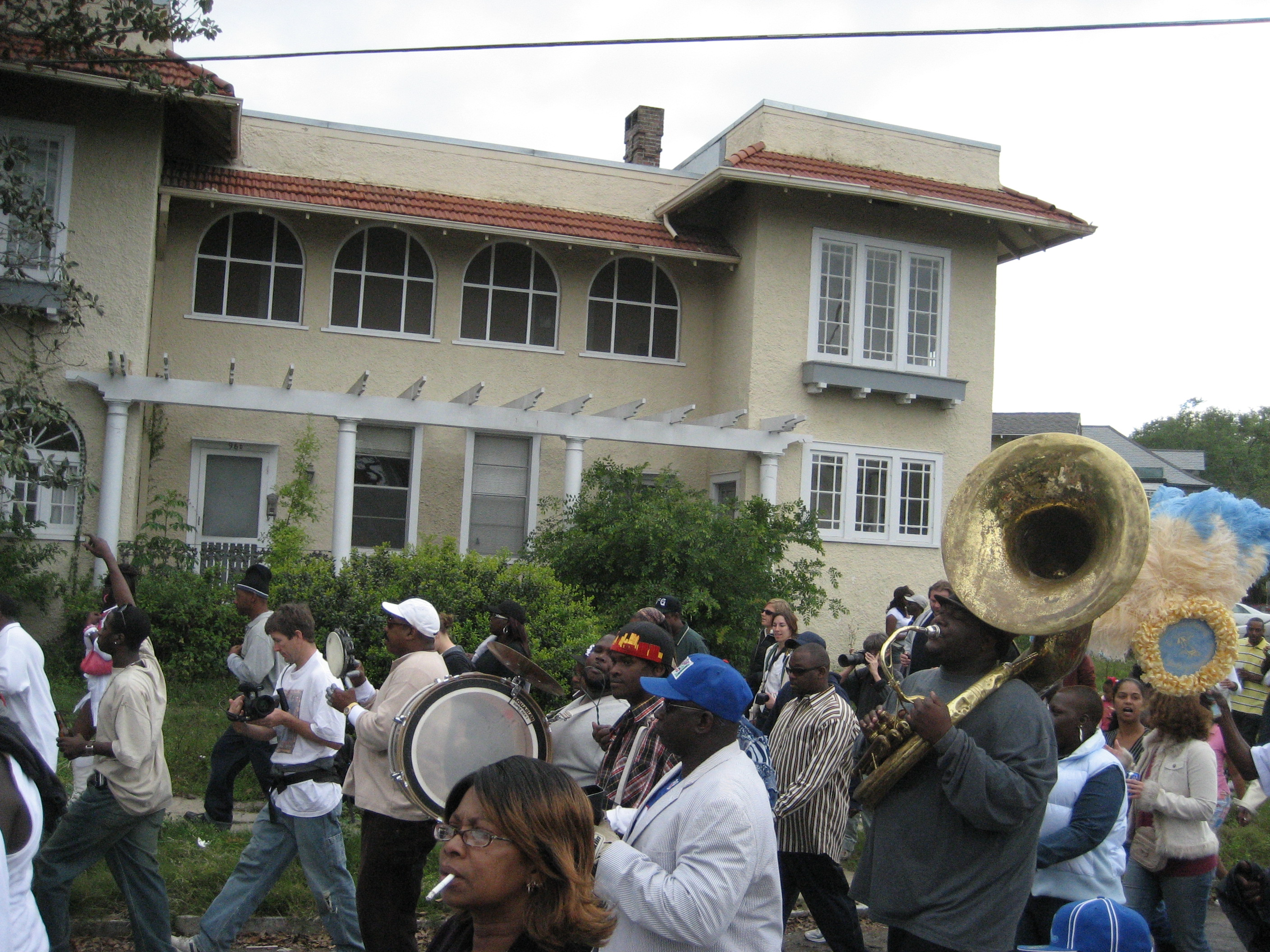 New Orleans: "Pigeon Town Steppers" second line club parade, Easter 2007, in Fountainbleau neighborhood Photo by Infrogmation